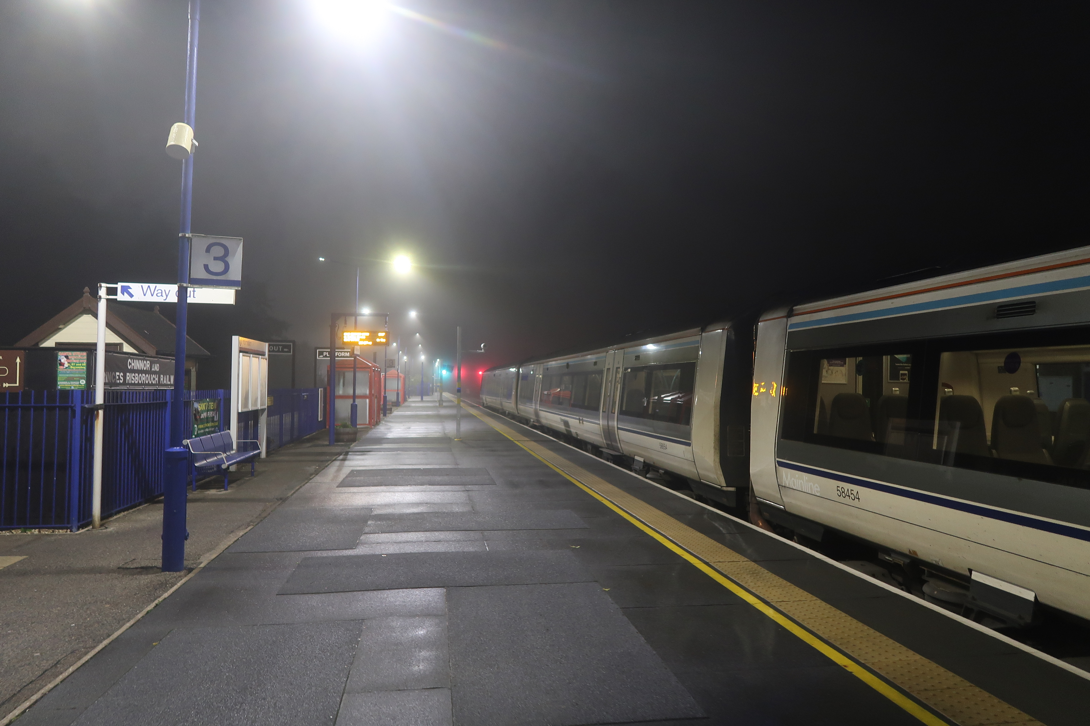 Platform 3 at Princes Risborough station at night, looking towards Aylesbury.